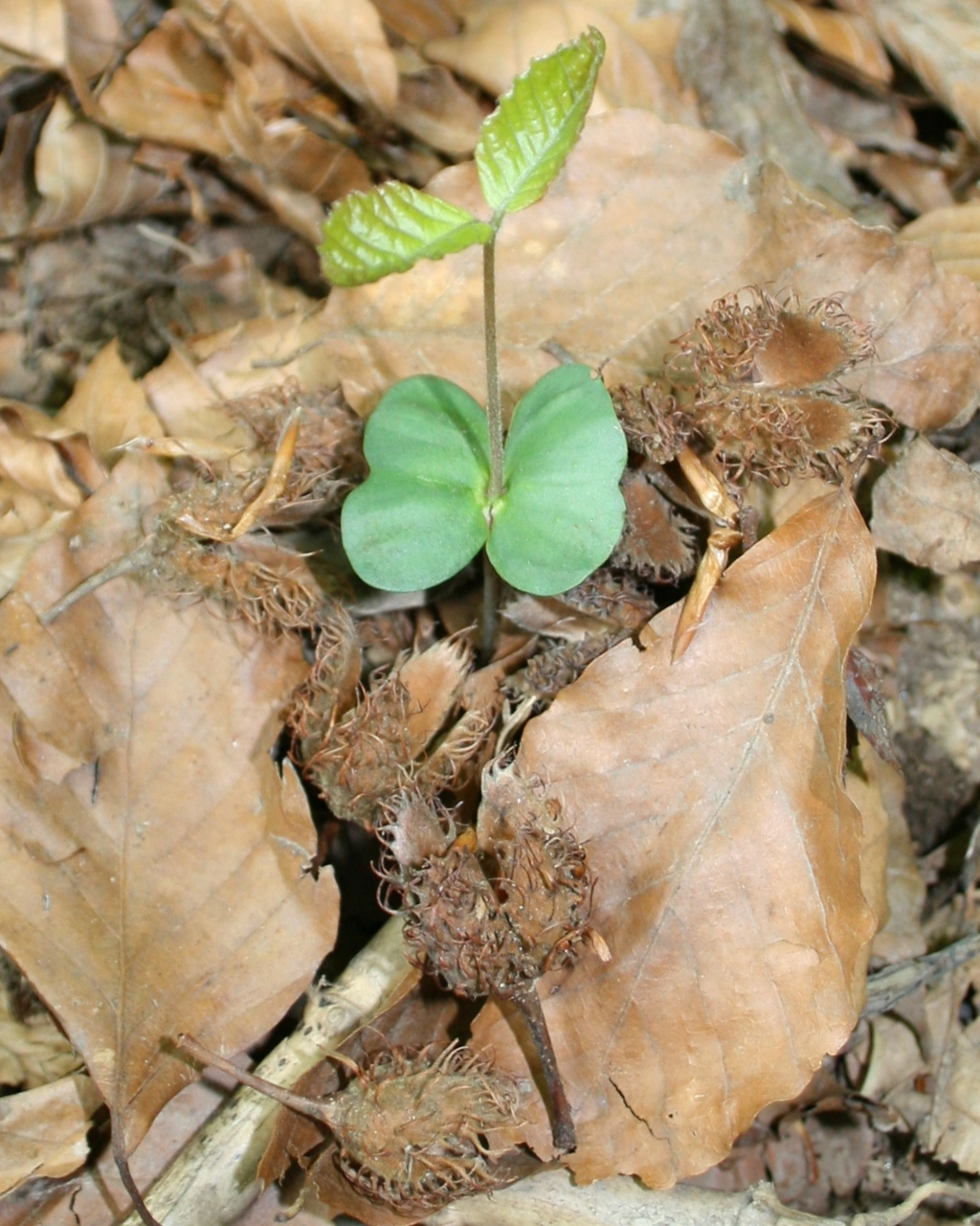 Fagus crenata in Mount Haku, Gifu prefecture, Japan.